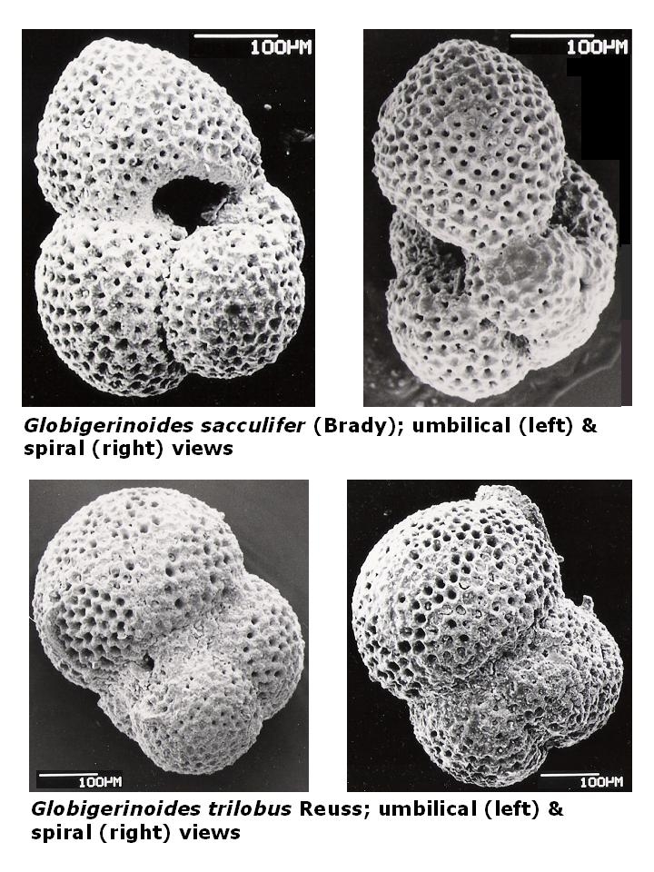 UPPER PICTURE: Globigerinoides sacculifer (BRADY); LOWER PICTURE: Globigerinoides trilobus REUSS; Late Pliocene (Baja California, Mexico)